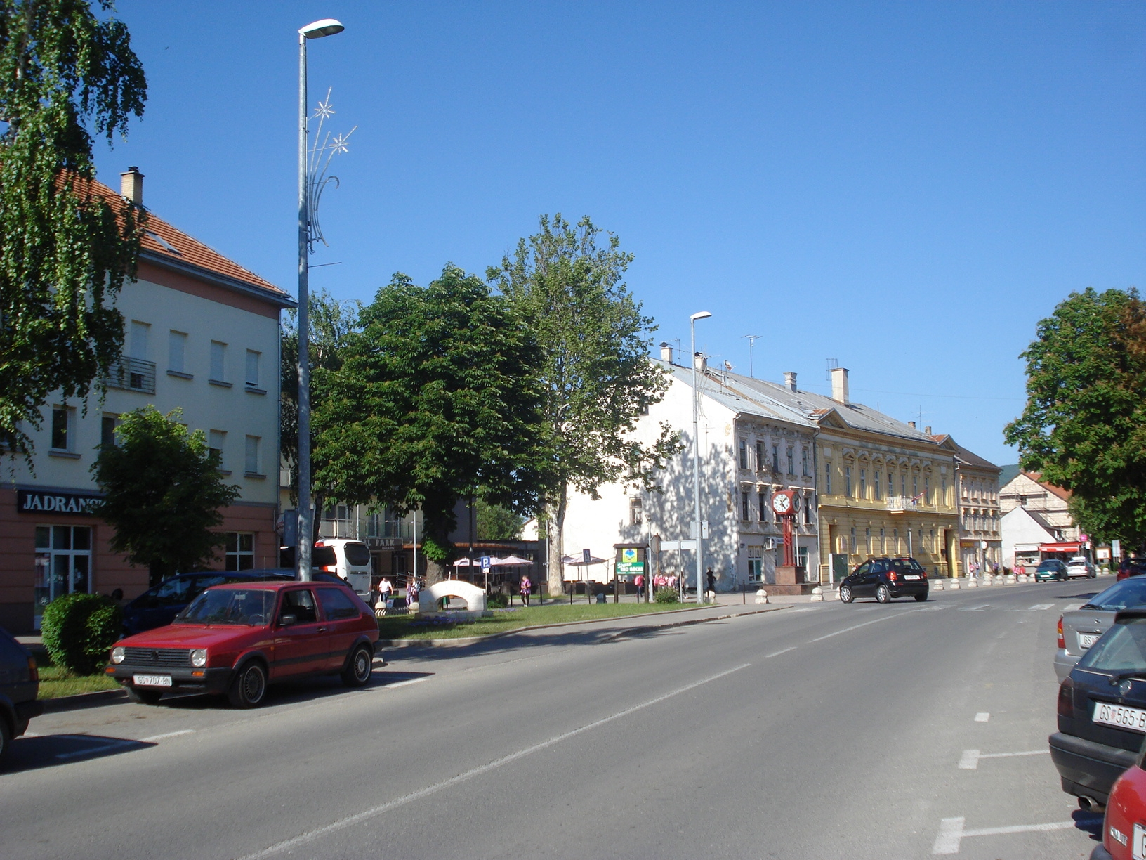 Otočac (Lika-Senj County, Croatia) - centre of the town